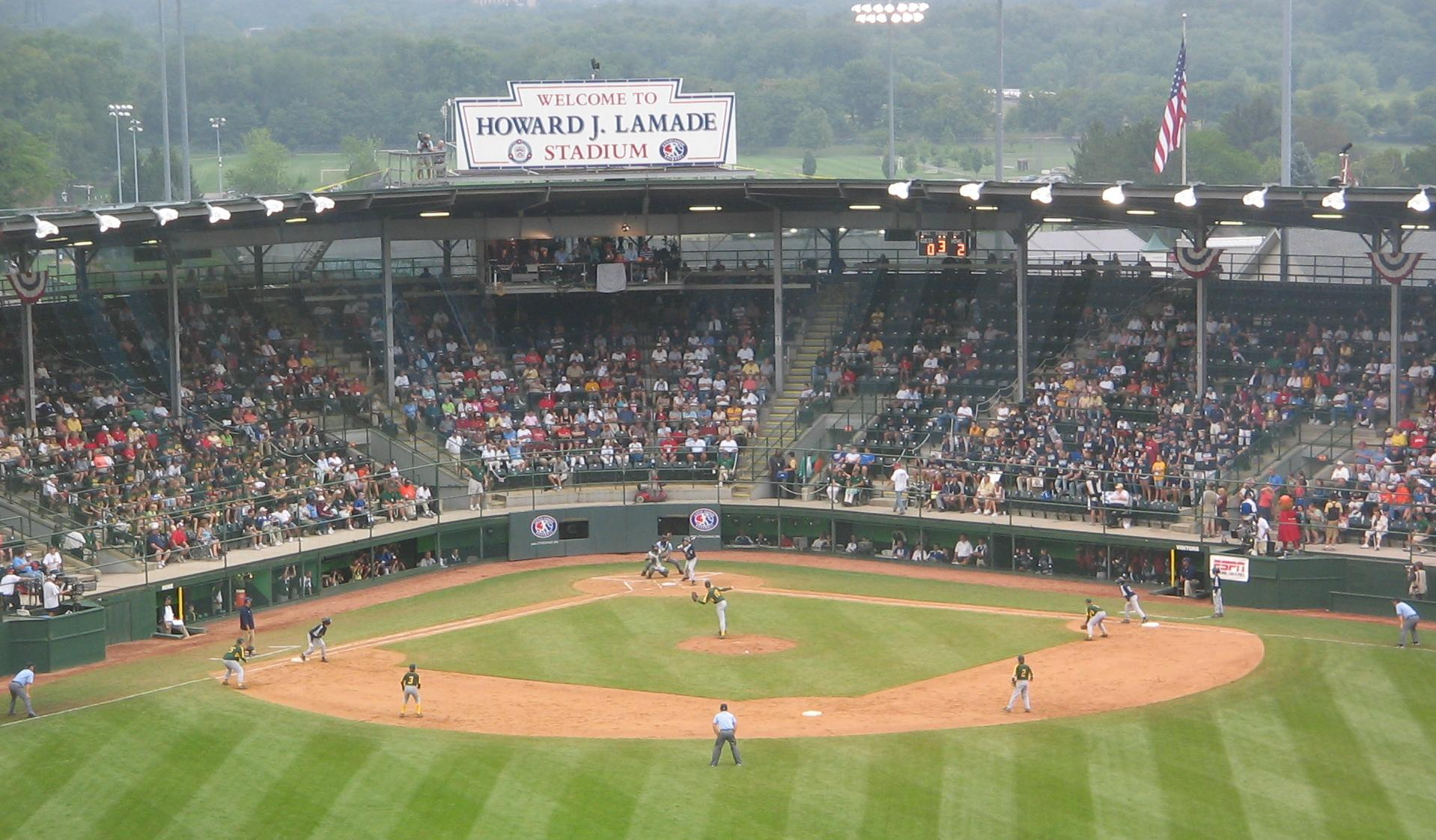 Cropped version of Little League World Series Game in Howard J. Lamade Stadium during the 2007 Little League World Series in South Williamsport, Lycoming County, Pennsylvania, USA